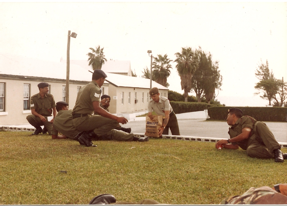 Senior ranks of the Training Company of the Bermuda Regiment gather at the parade ground of Warwick Camp. The Warrant Officer, Second Class (WO2) in the khaki shirt is a member of the Bermuda Regiment's permanent staff (the only personnel issued Service Dress uniforms), whereas the other men are all part-timers. The Warrant Officer is a Permanent Staff Instructor (PSI), and his beret indicates that he is on secondment from the Royal Anglian Regiment, which fulfills a paternal role to the Bermuda Regiment akin to its relationship with its own Territorial Army battalions, providing a PSI to each of the Bermuda Regiment's companies, and seconding other officers and NCOs as needed. Royal Anglians on long term attachment to the Bermuda Regiment wear the Bermuda Regiment cap badge on the Royal Anglian Regiment's beret.